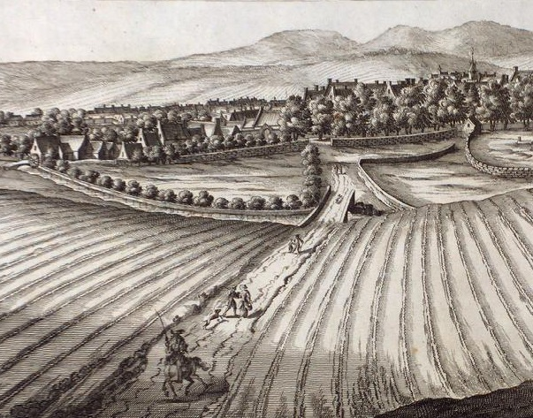 Runrig farming outside Haddington in East Lothian c.1690. The view from south of the town shows a small bridge over the River Tyne and the Garleton Hills in the distance.